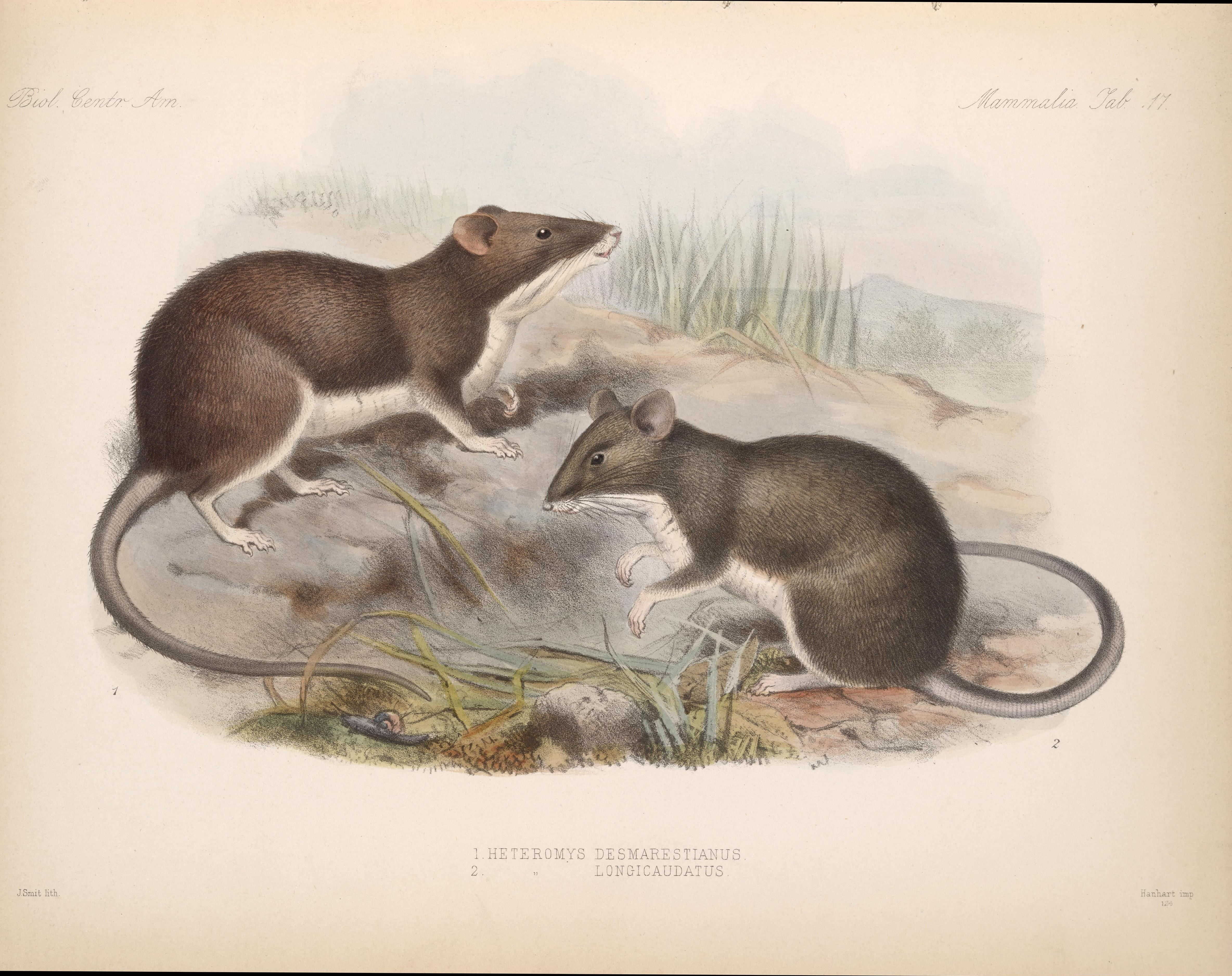 Heteromys desmarestianus & H. d. longicaudatus syn. H. longicaudatusBiologia Centrali-Americana :zoology, botany and archaeology /edited by Frederick Ducane Godman and Osbert Salvin.